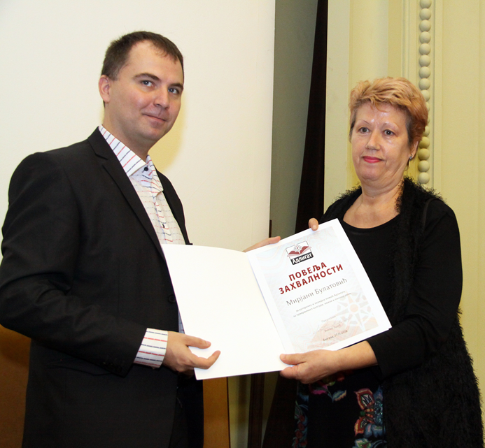 Viktor Lazić presents the Charter of Gratitude of the Adligat to Mirjana Bulatović, 2018. Српски (ћирилица): Виктор Лазић уручује Повељу захвалности Адлигата Мирјани Булатовић, 2018.